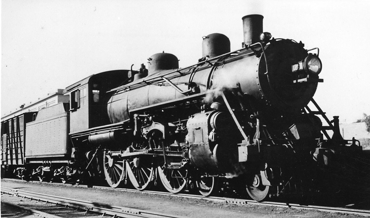 Commonwealth Railways CA class locomotive, no. CA79, at Port Augusta railway station, South Australia. The locomotive was built by Baldwin in 1907 for the New York, New Haven and Hartford Railroad, and served on that railroad as G-4a class engine no. 820. During World War II, it was exported from the USA to Australia. It entered service with the Commonwealth Railways in August 1943 and was officially withdrawn in May 1950, although it is believed to have been taken out of service a year or to earlier.Some of the information provided here about the image is obtained from Fluck, Ronald E; Marshall, Barry; Wilson, John (1996). Locomotives and Railcars of the Commonwealth Railways. Welland, SA: Gresley Publishing, pp. 42-45. ISBN 0959969039.